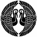 Japanese Crest Mukaituru